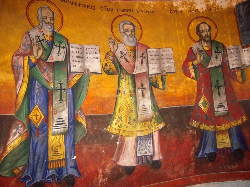 Fresco in St Nicholas Church in Toplica